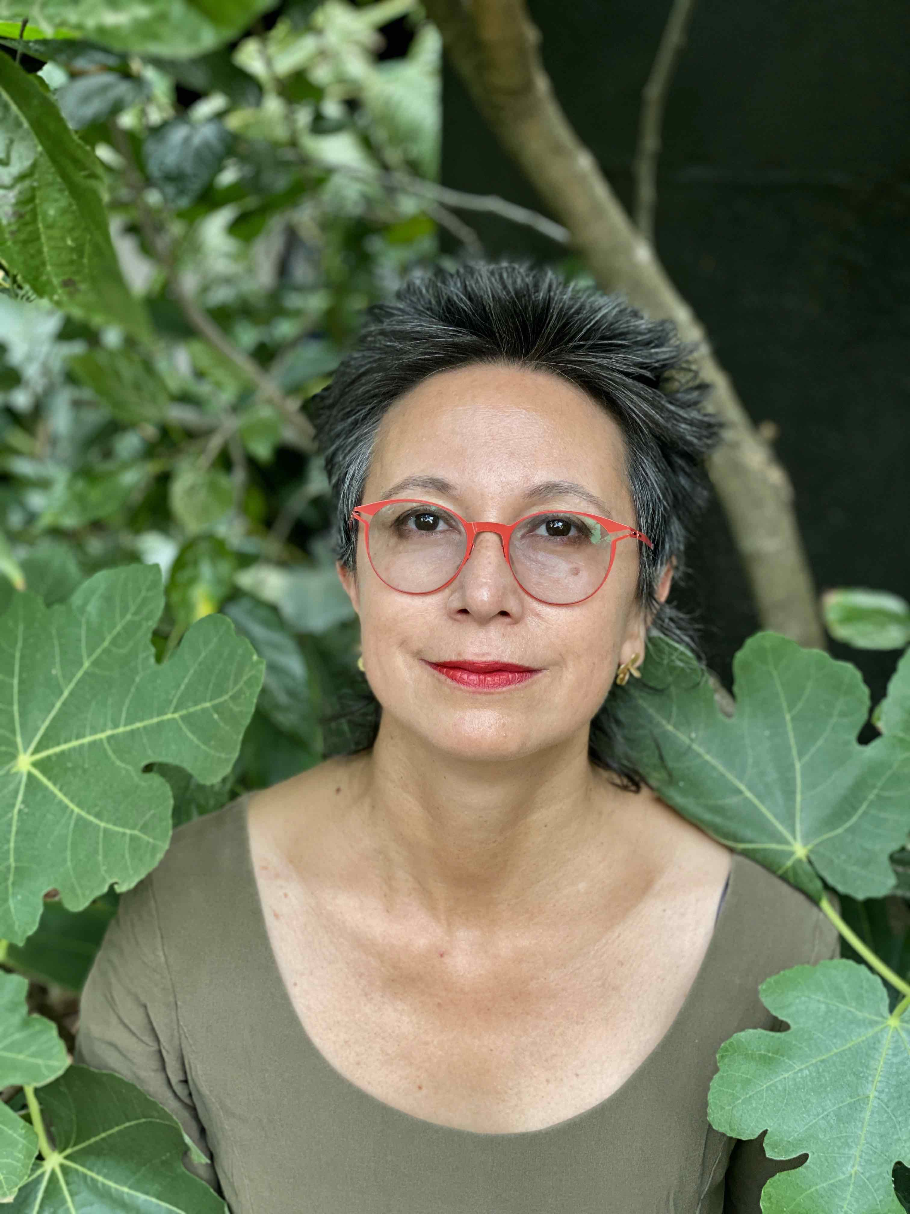 Maria Fernanda Cardoso's 2020 portrait